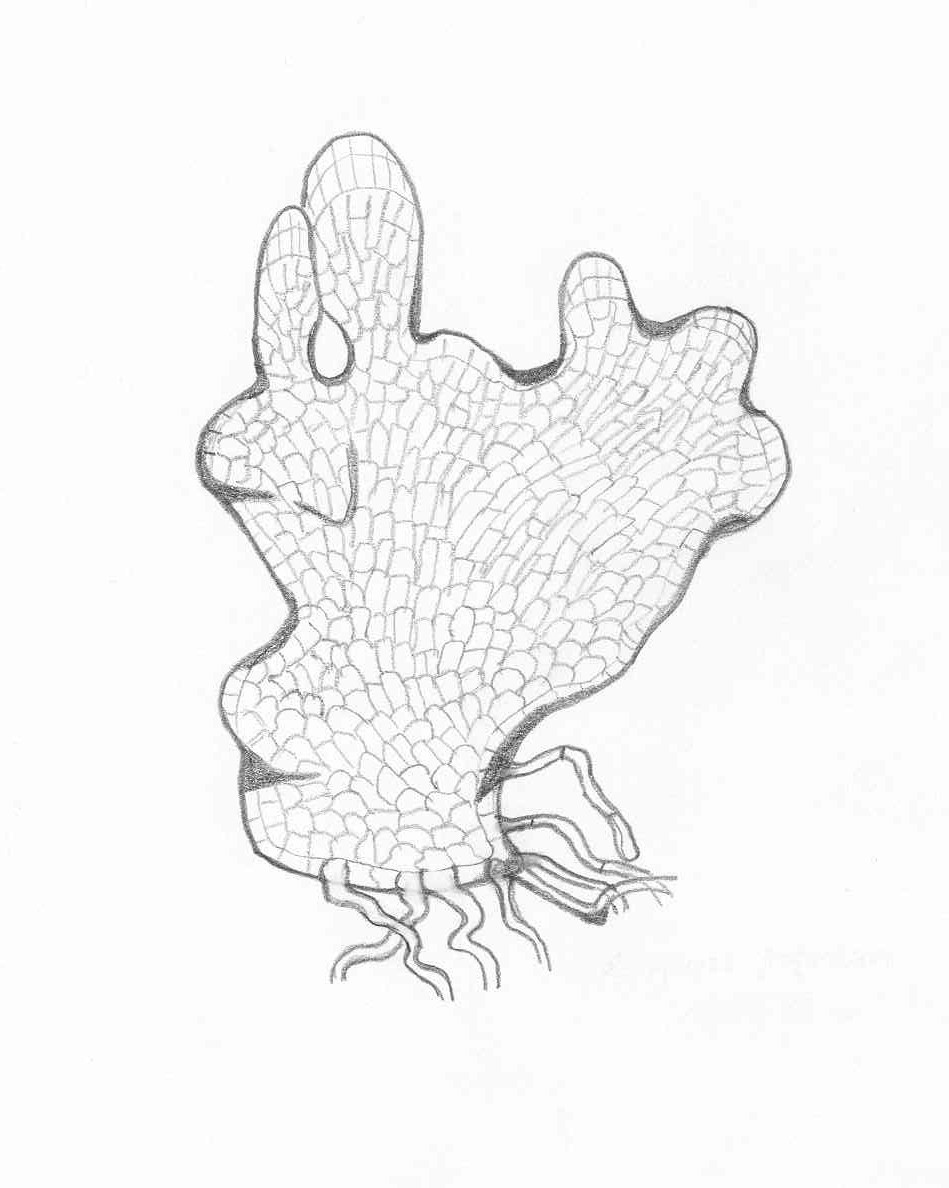 On this image is spathic prothallium of a moss Sphagnum palustre.